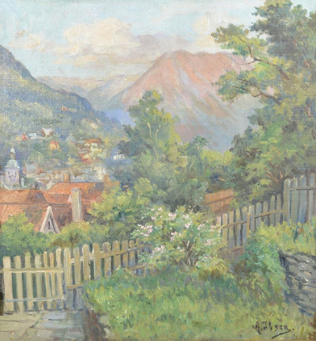 Painting showing the city of Bergen